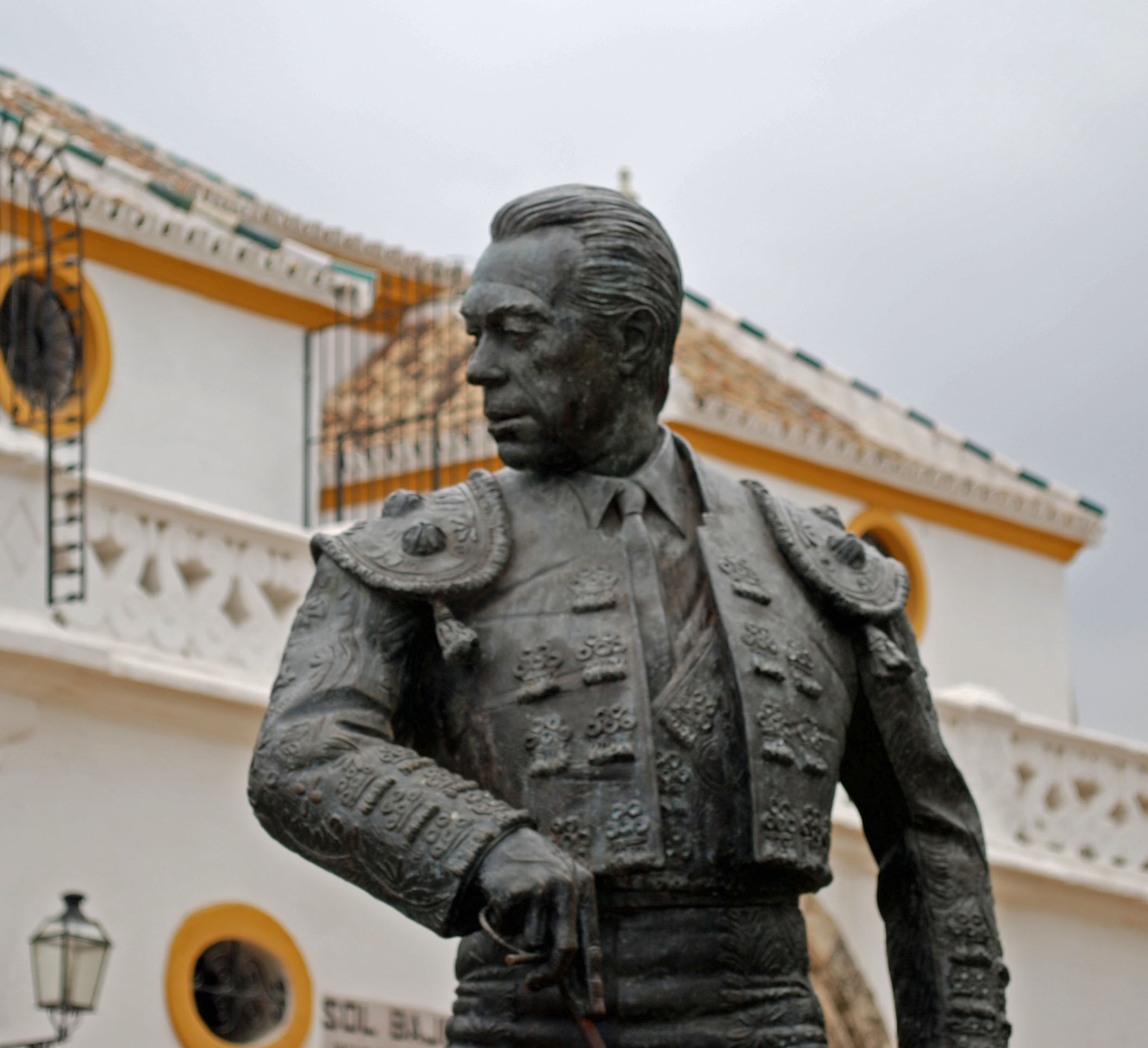 Statue of spanish bullfighter, Curro Romero in front of the Maestranza of Seville